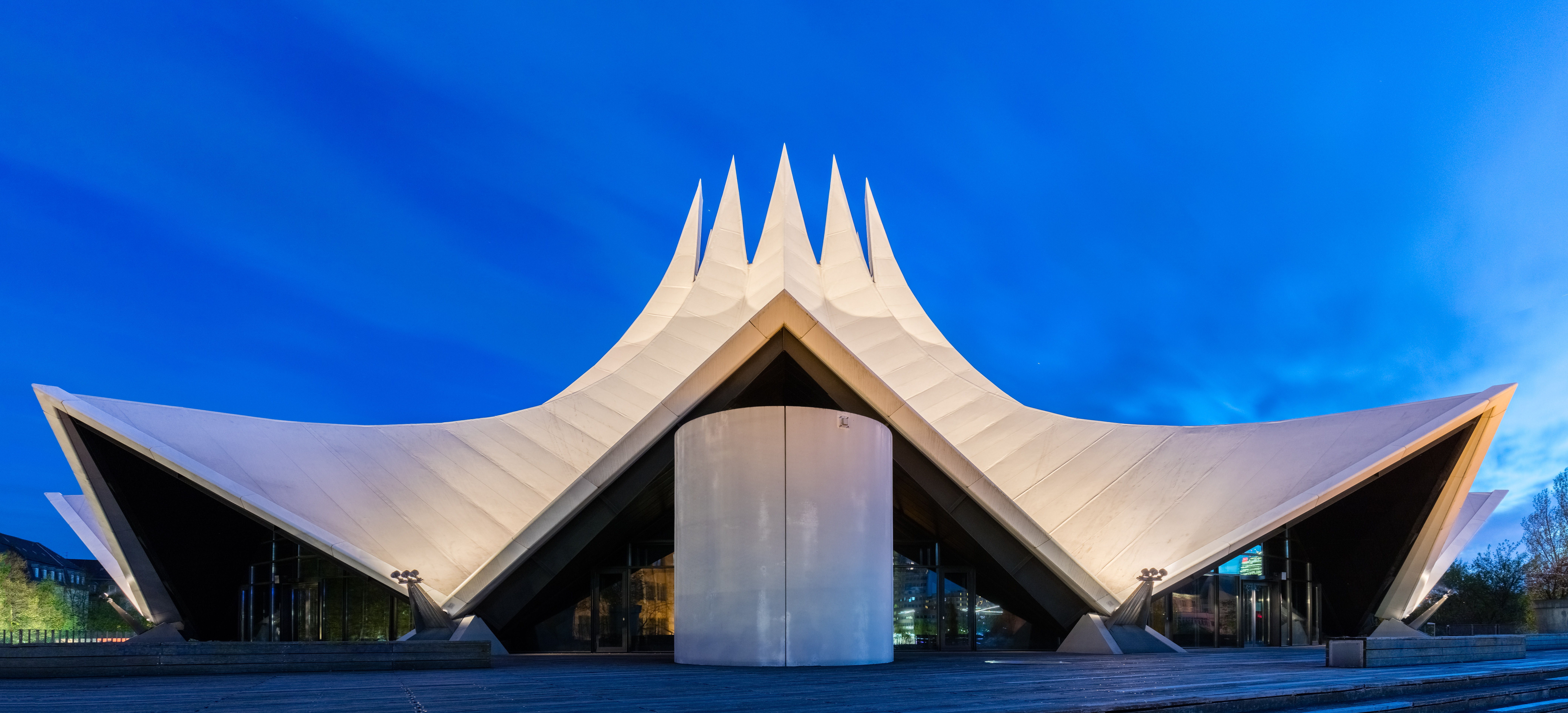 View of the event venue Tempodrom during the blue hour, Kreuzberg neighborhood, Berlin, Germany. It was inaugurated in 1980 next to the Berlin Wall on the west side of Potsdamer Platz and was housed in a large circus tent. After several changes of location it got a permanent building in 2002 and has today three performance spaces with a capacity of 3,800 people in the main one.